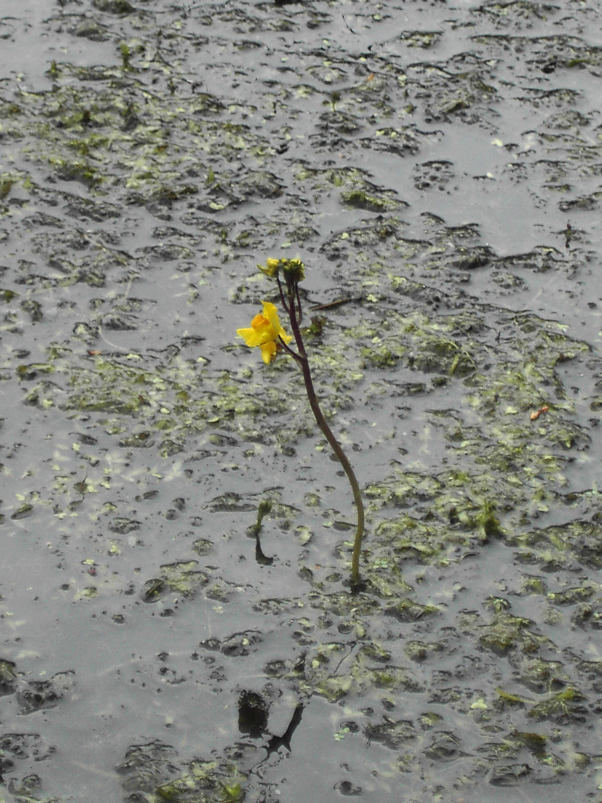 Bladderwort at Leiemeersen, Oostkamp, Belgium